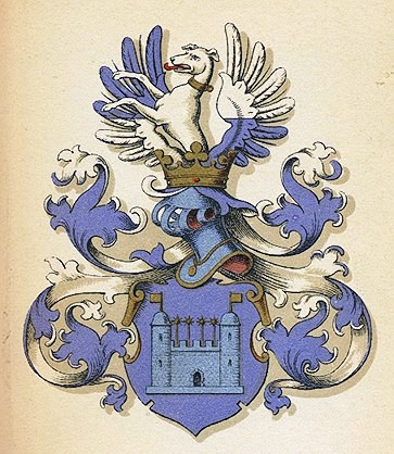 Coat of arms of the Danish-German-norwegian family von Krogh